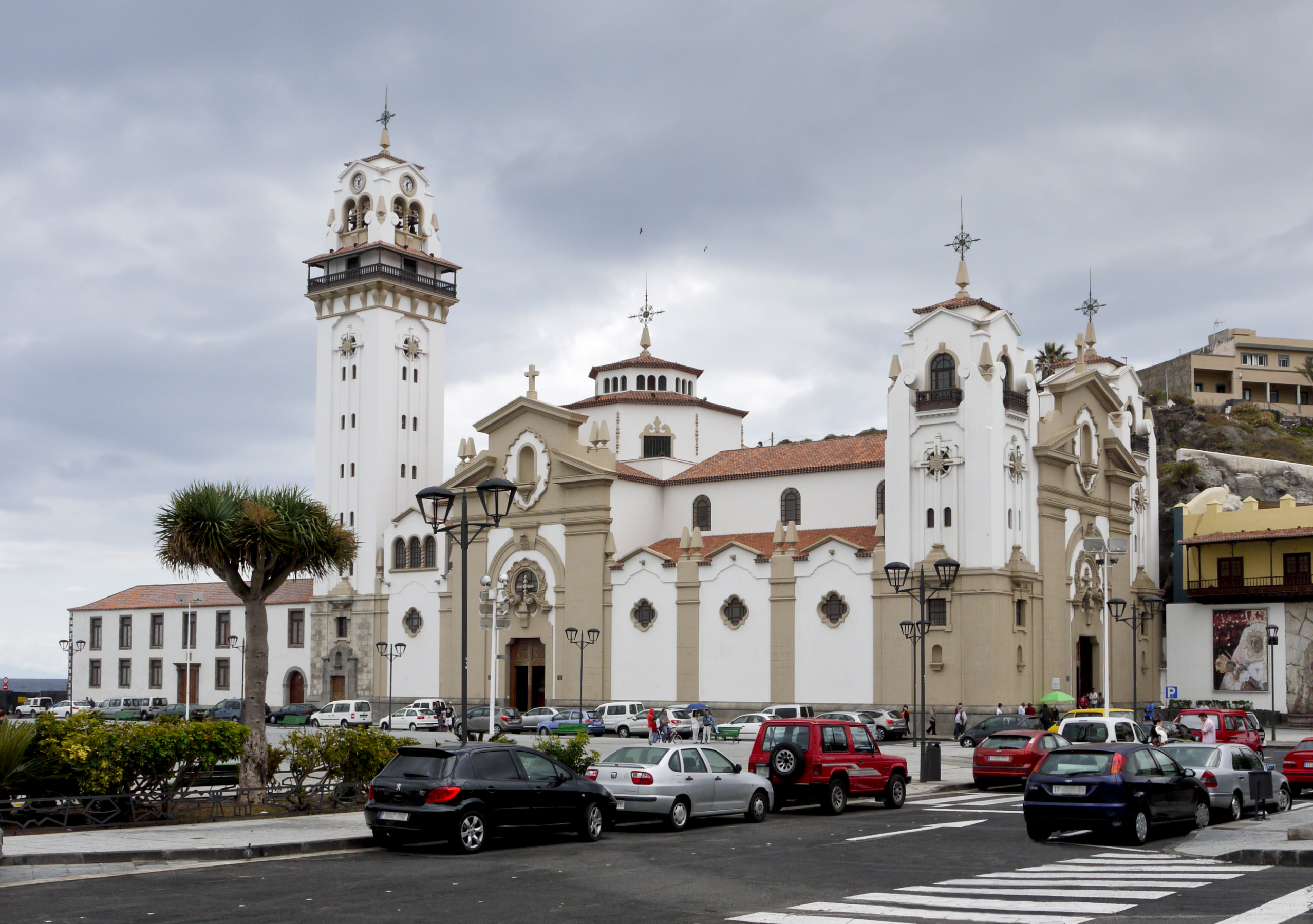 Basílica de Nuestra Señora de la Candelaria, Candelaria, Tenerife, Spain.